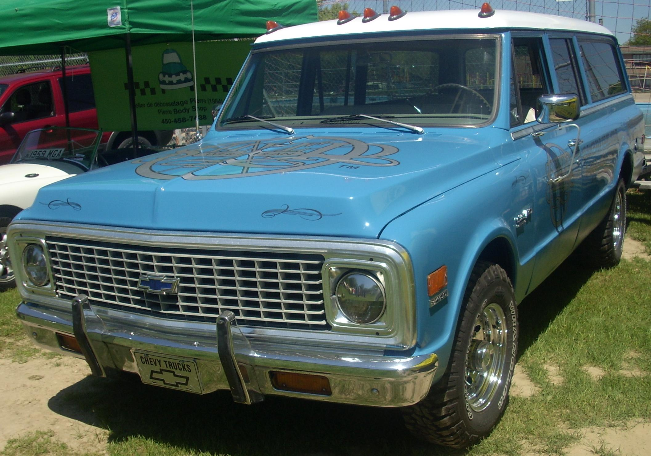 Chevrolet Suburban photographed at the 2008 Hudson British Car Show.